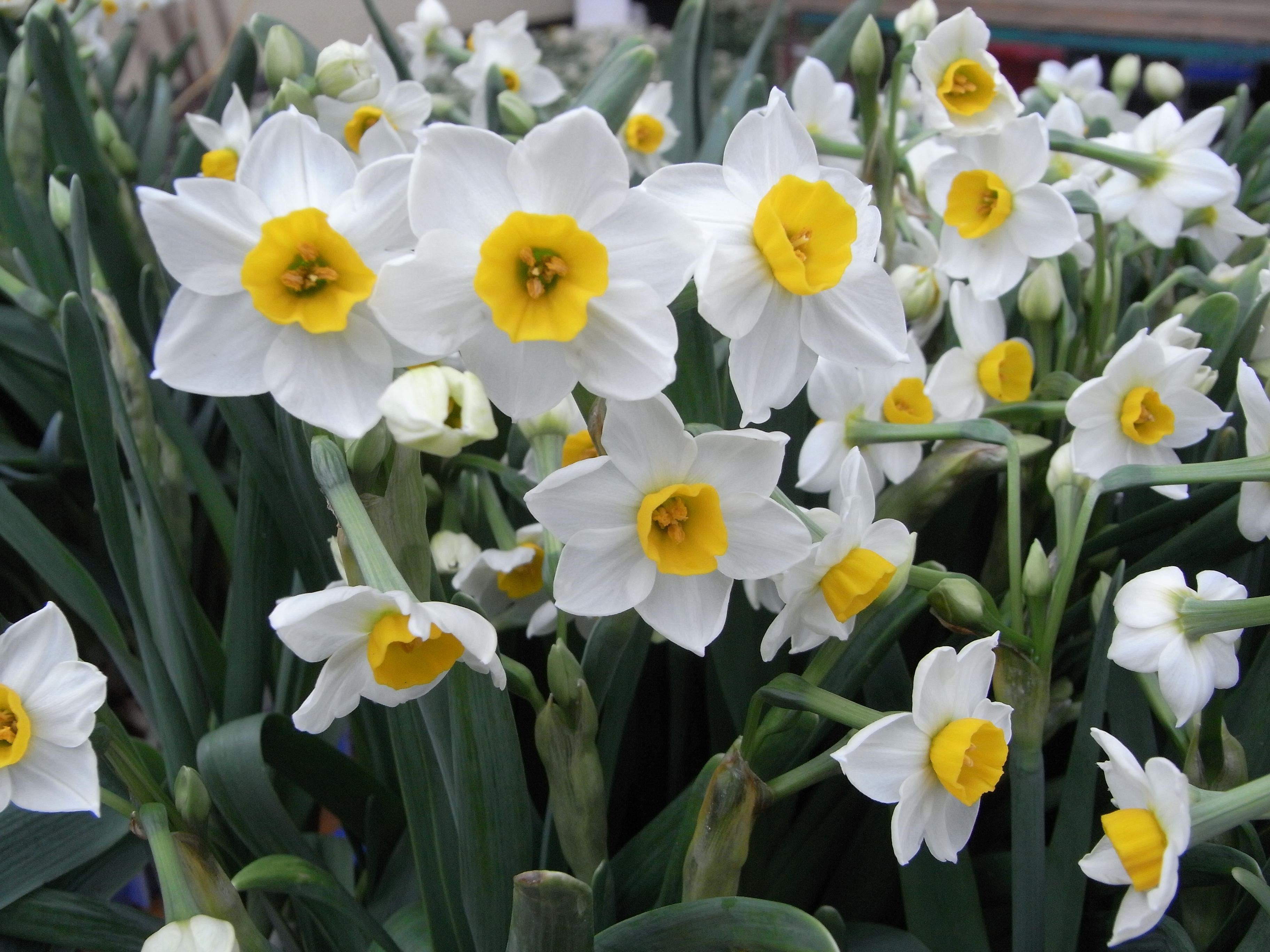 2010年zh:維多利亞公園香港年宵市場 水仙